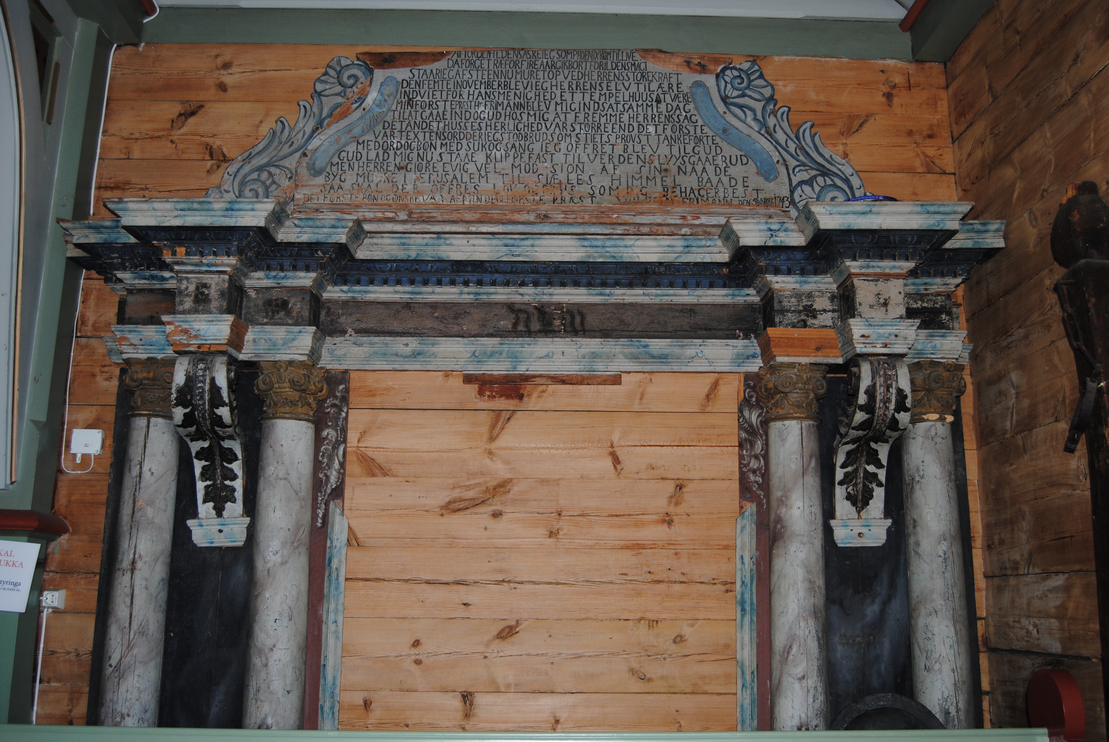 Remains of the altar piece from the old church at Manger, Norway